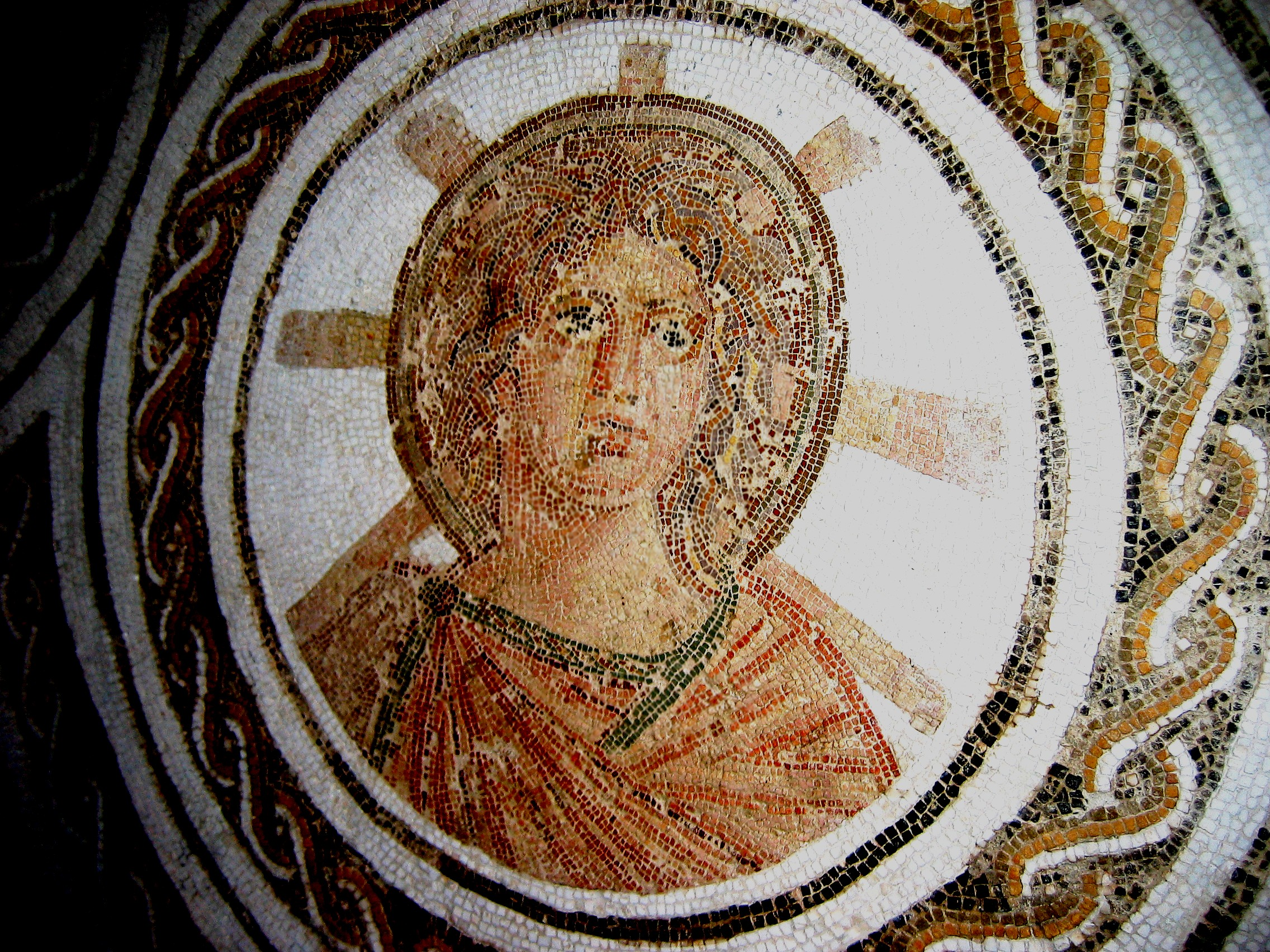 Apollo author-Maciej Szczepańczyk-user:Mathiasrex Apollo on the Roman mosaic El-Jem, Tunisia